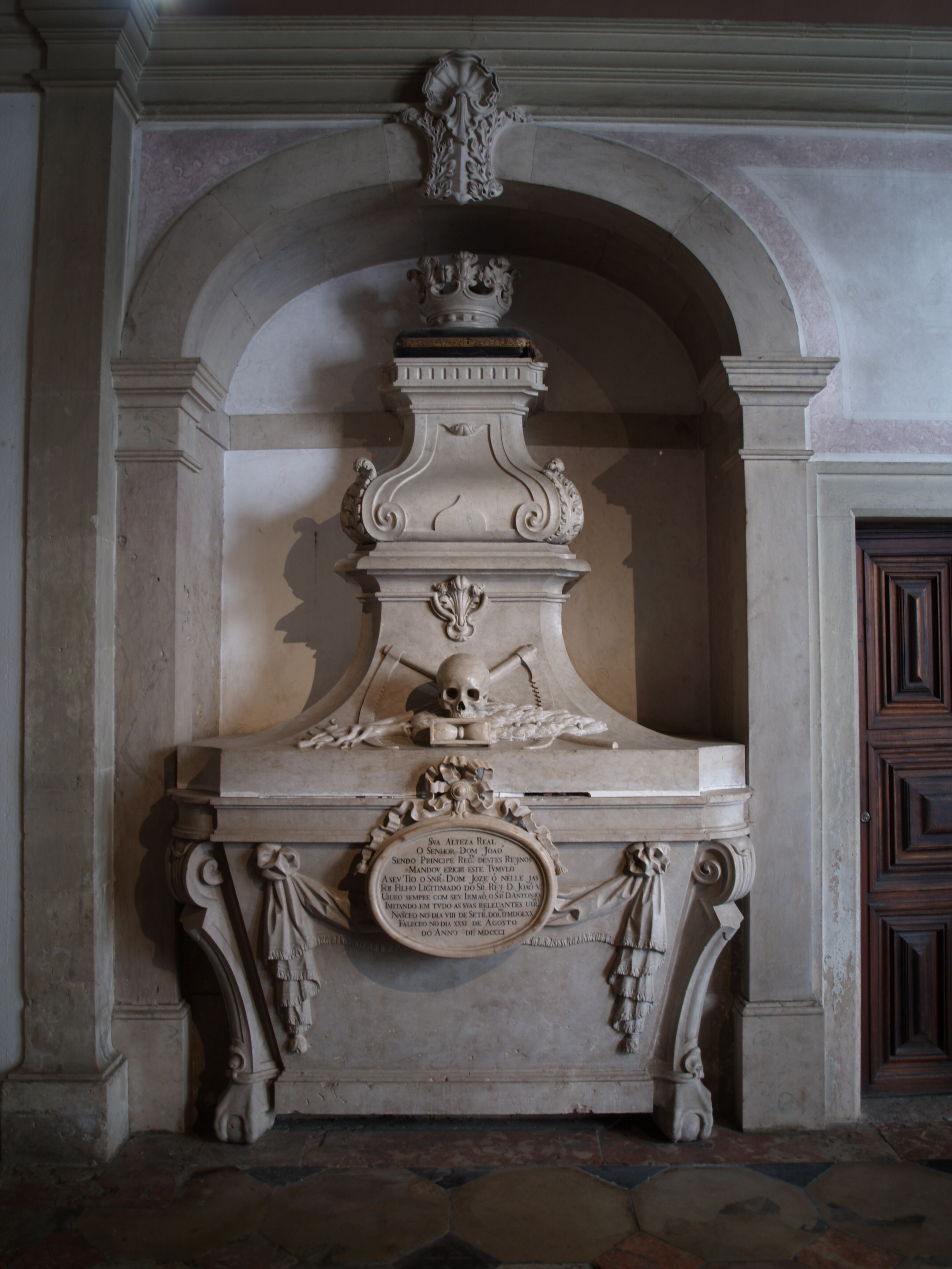 This file was uploaded for Wiki Loves Monuments in Portugal with the unique identifier 71213.